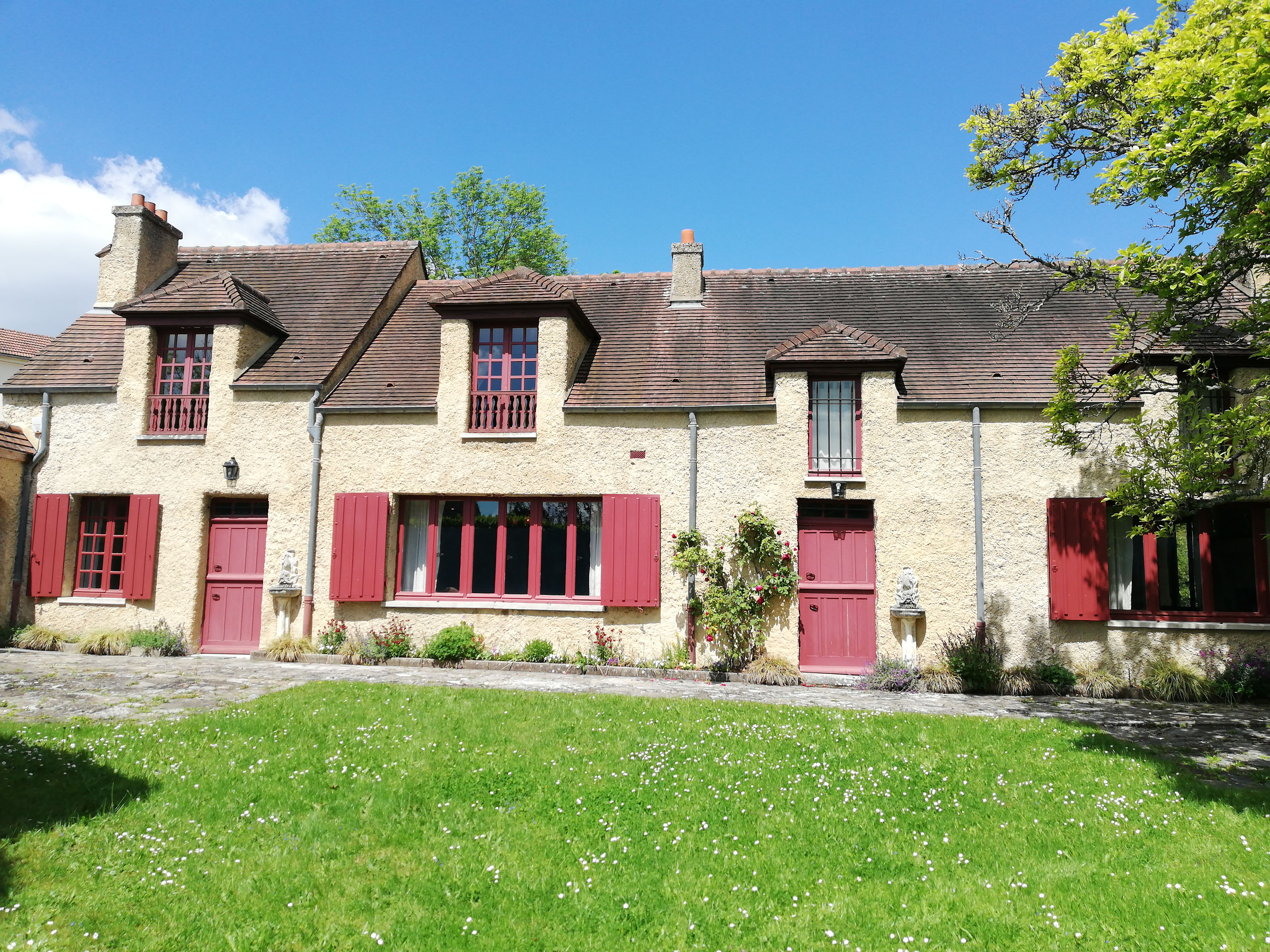 House of Jeanne and Leon Blum after WWII